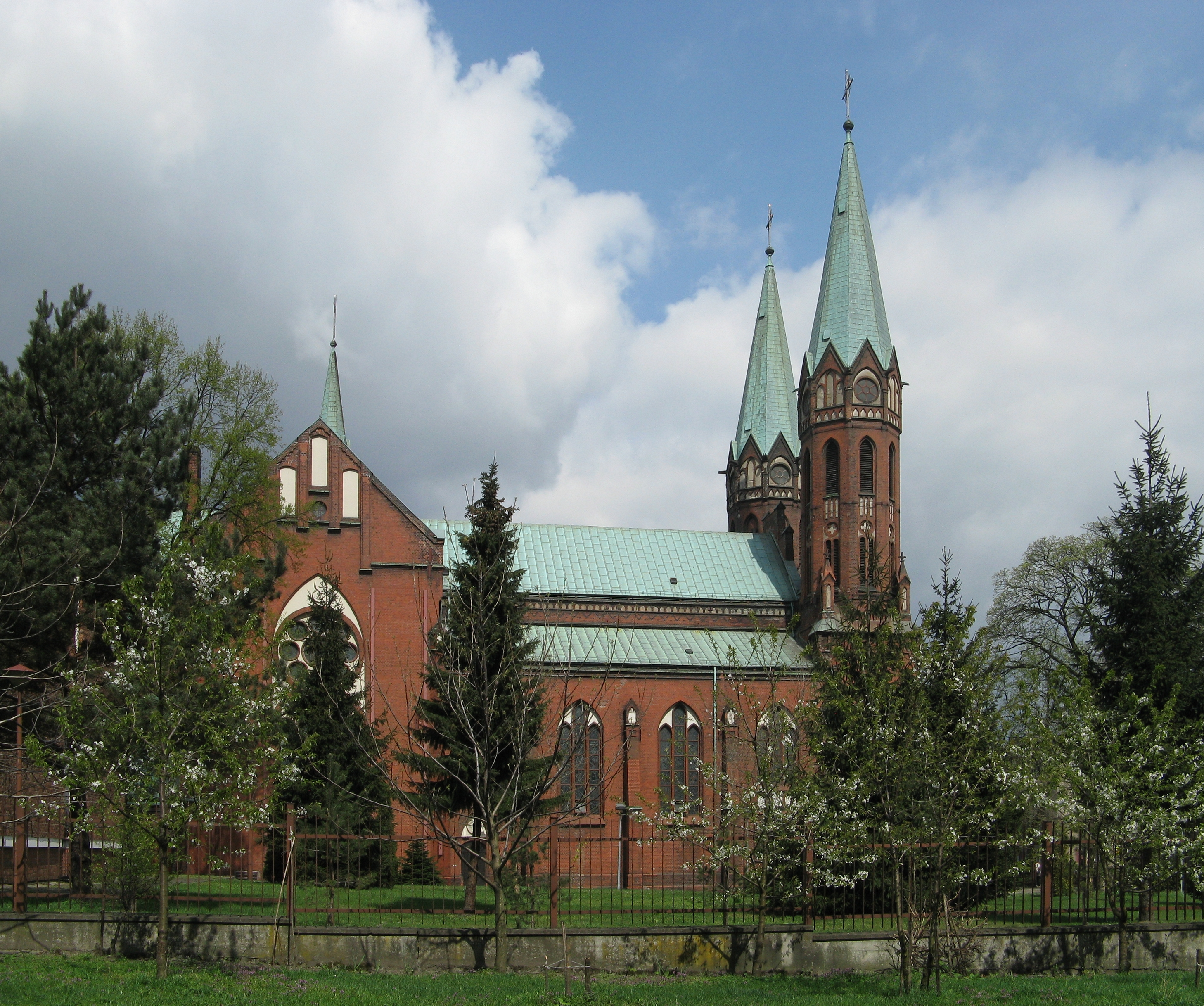 Good Shepherd church in Bytom-Karb, Popiełuszki 4 street, Poland.